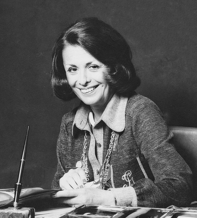 Irene Galitzine, Russian princess and fashion designer naturalized Italian, smiles sitting at her desk. Italy, 1970.